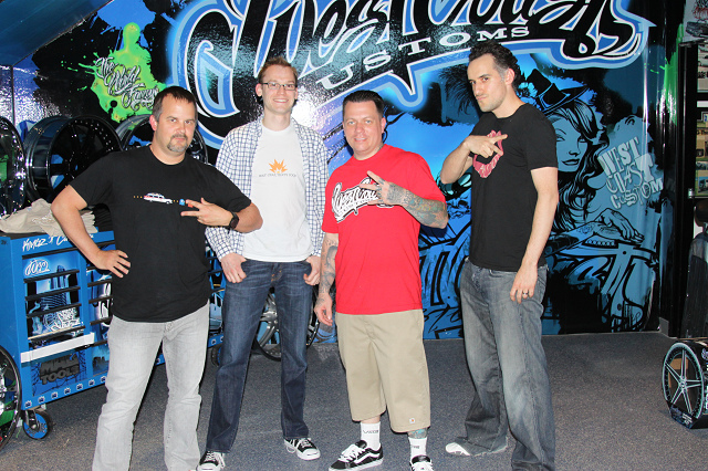 CEO of West Coast Customs Ryan Friedlinghaus poses with Microsoft employees (from left) Jeff Sandquist, Clint Rutkas, and Dan Fernandez.